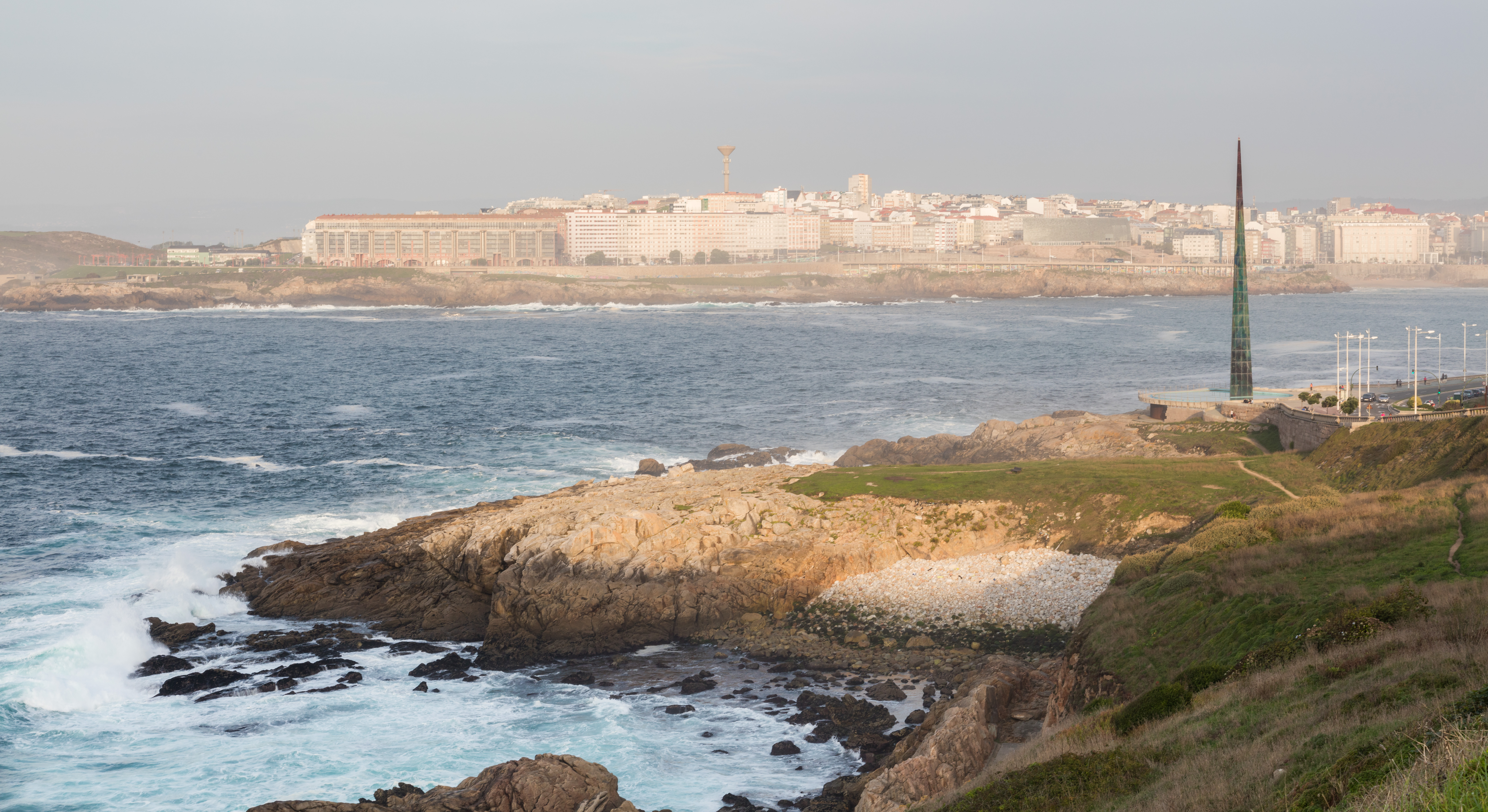 Millenium and view of La Coruña, Spain